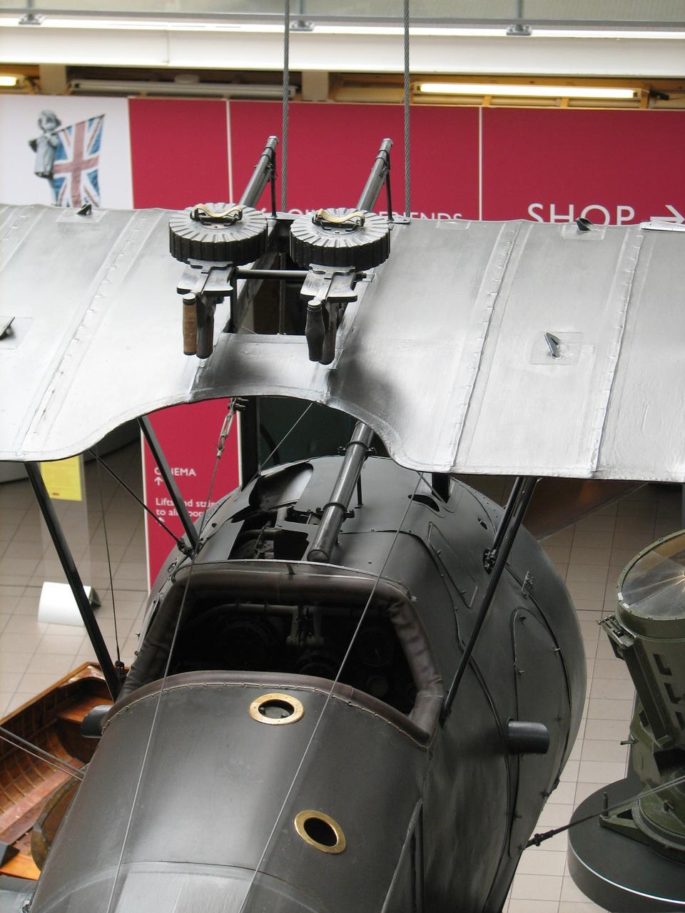 Sopwith Camel 2F1 no N6812 flown by Flight Sub-Lieutenant S D Culley during a sweep by the Harwich Force in the North Sea on 11 August 1918. He took off from the lighter H5 which was being towed by the destroyer HMS Redoubt and shot down Zeppelin L53, the last enemy airship to be brought down in the First World War. Taken at Imperial War Museum London. See also : File:Sopwith Camel at the Imperial War Museum.jpg : view from left side File:Lewis Gun Camel.jpg : top wing from right side File:Sopwith Camel.jpg from right front above